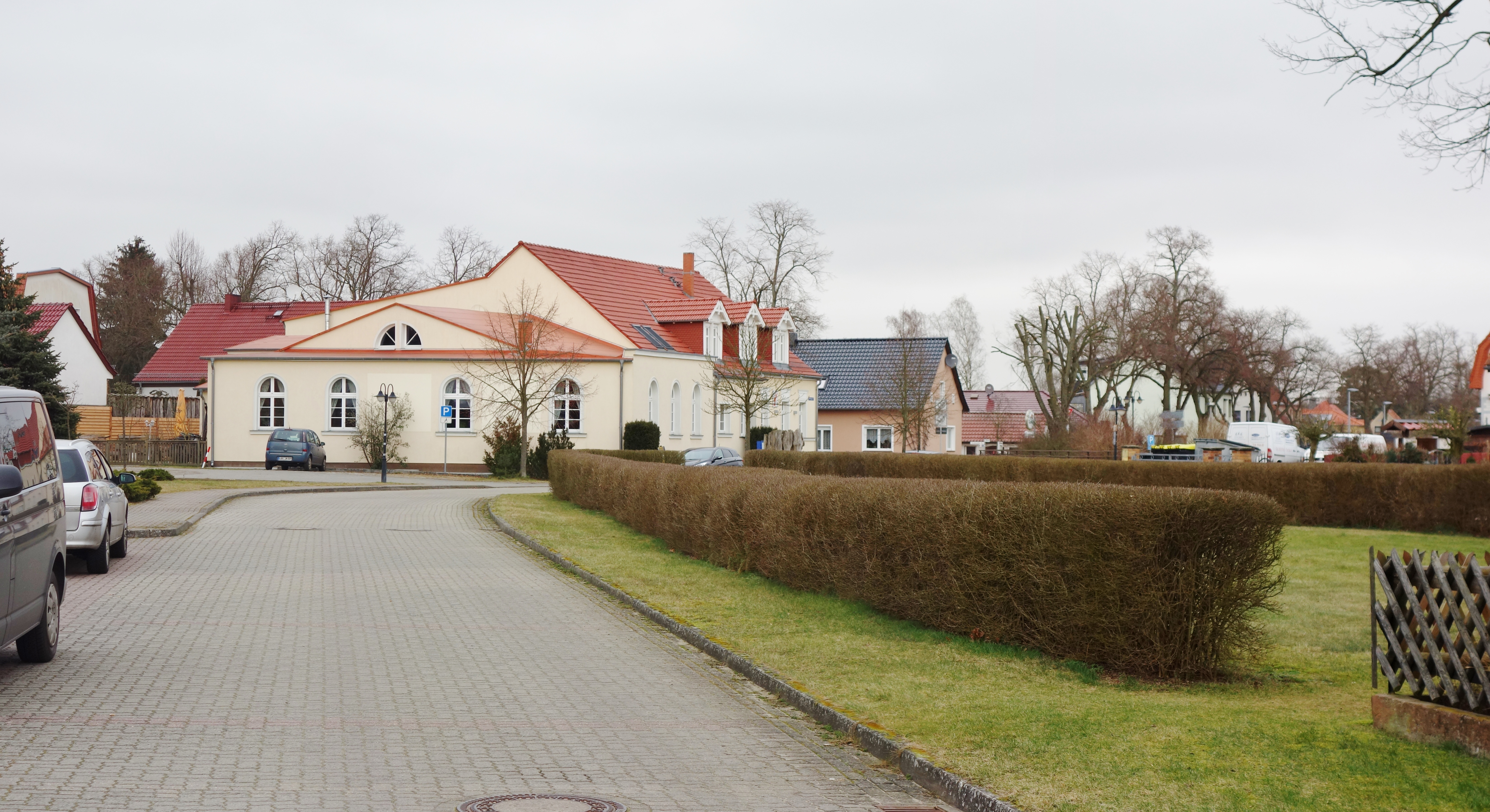 Citizens house in Berkenbrück municipality, Oder-Spree district, Brandenburg state, Germany